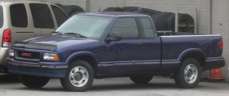 1994-1997 GMC Sonoma photographed in College Park, Maryland, USA.